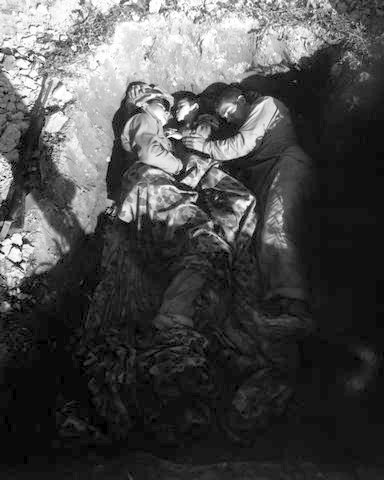 Marine Corporal Earl Brunitt (left) and Private Genare Nuzzi share a fighting hole and a couple of ponchos on Okinawa with a war orphan. April 1945. Sgt. W.A. McBride or Sgt. Howard S. England. (Marine Corps ) Exact Date Shot Unknown . NARA FILE #: 1127-N-118933 WAR & CONFLICT BOOK #: 881